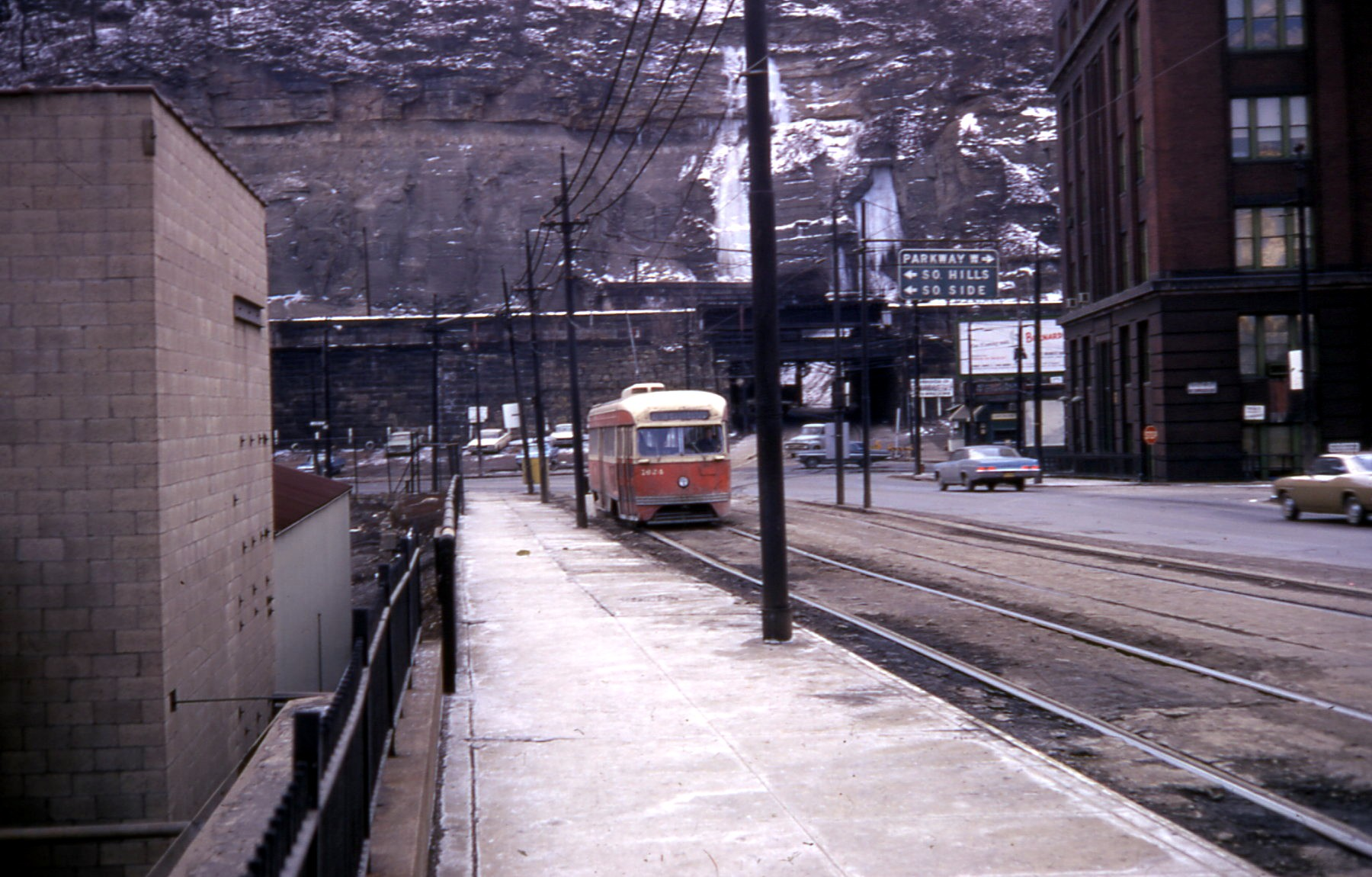 19680224 24 PAT 1624 P&LE Station